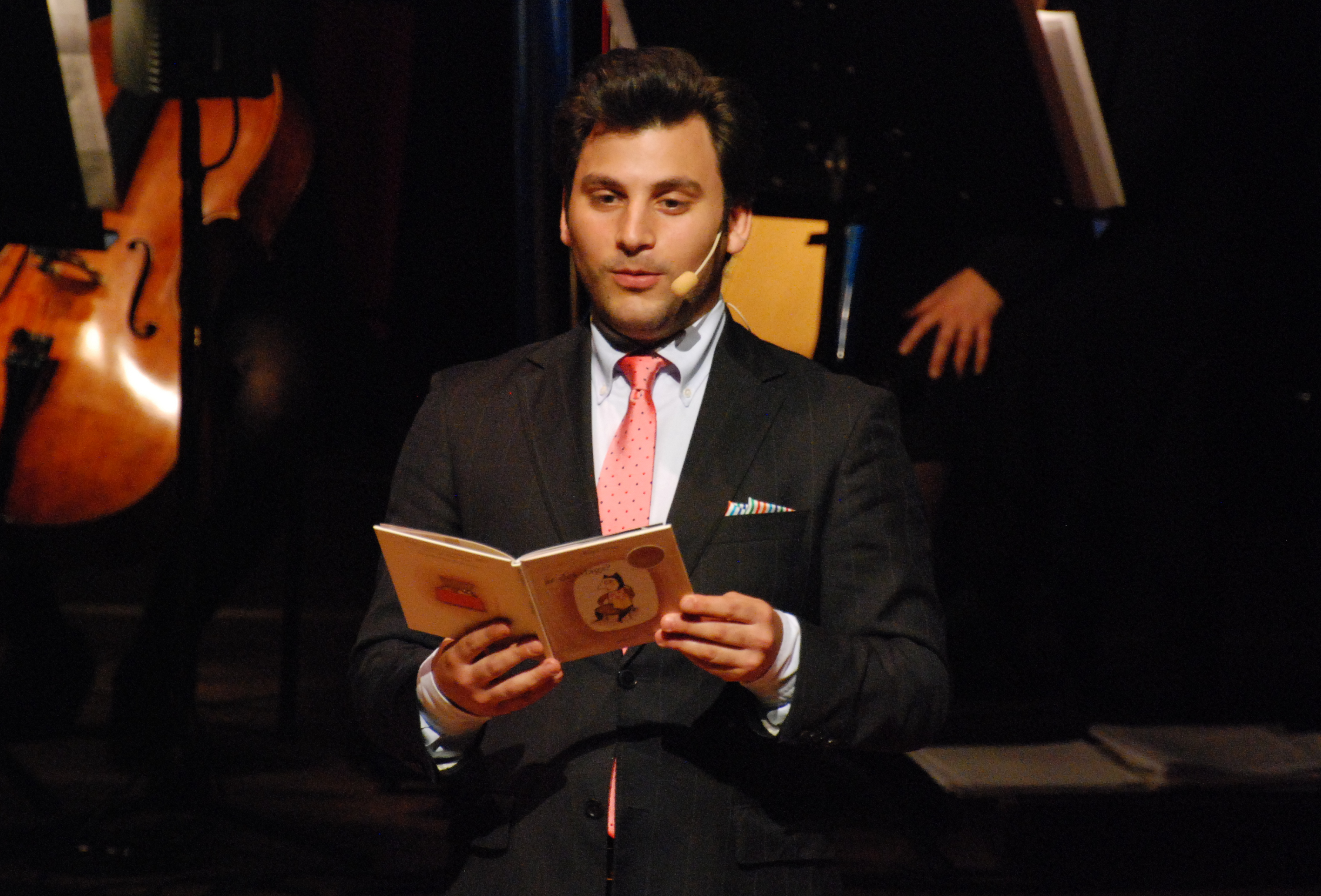 Award ceremony of the Astrid Lindgren Memorial Award 2010: Daniel Boyacioglu reads from Kitty Crowthers "Är det dags?" (original title: "Alors?")